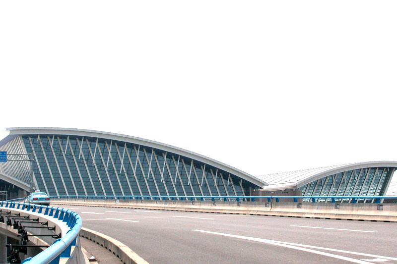 The Pudong International Airport, Pudong, Shanghai, China. The express way